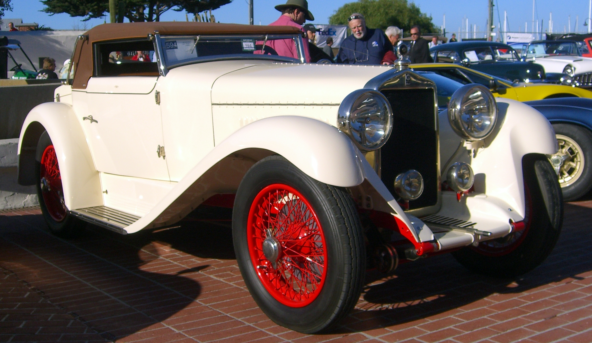 1927 Georges Irat Model A with body by Paris coachbuilder Marcel Pourtout. The Model A was Irat's first model. This example was shown at the 1927 Paris Automobile Salon and offered at 135,000 francs. In 2007 it sold for $148,500 at auction in Monterey, California.